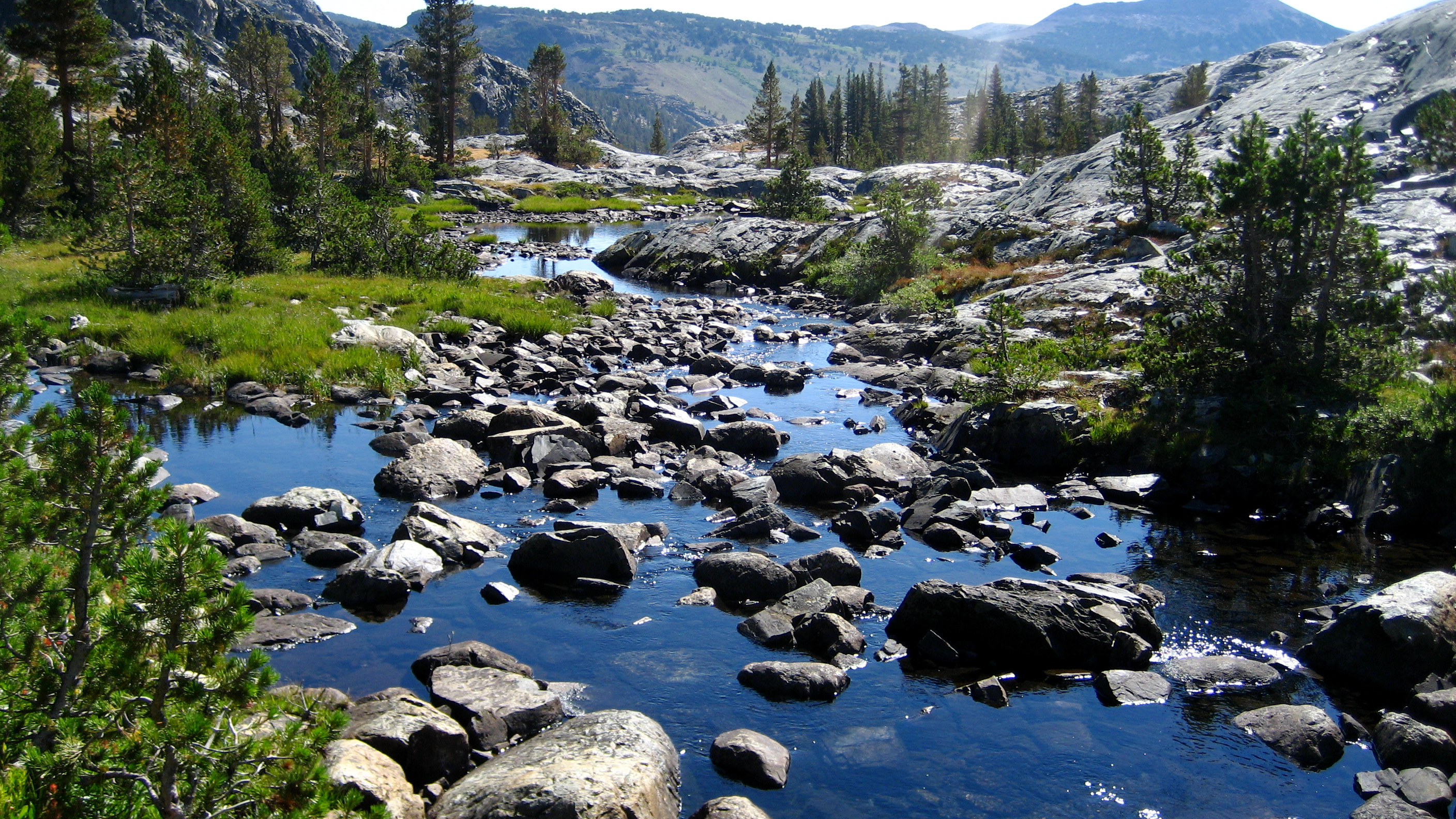 The San Joaquin River starts small at the outlet of Thousand Island Lake. Ansel Adams Wilderness, California.